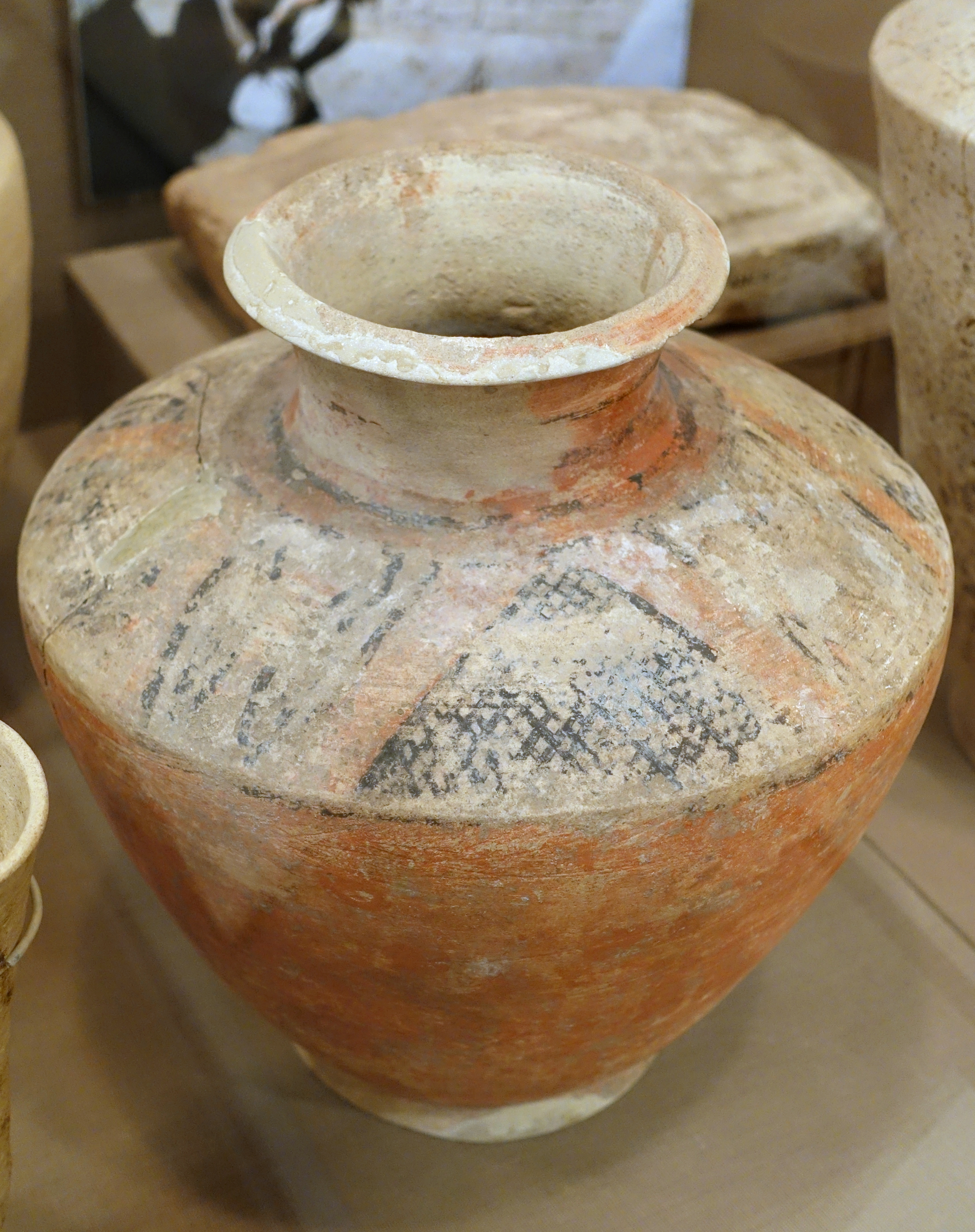 Exhibit in the Oriental Institute Museum, University of Chicago, Chicago, Illinois, USA. This work is old enough so that it is in the public domain.